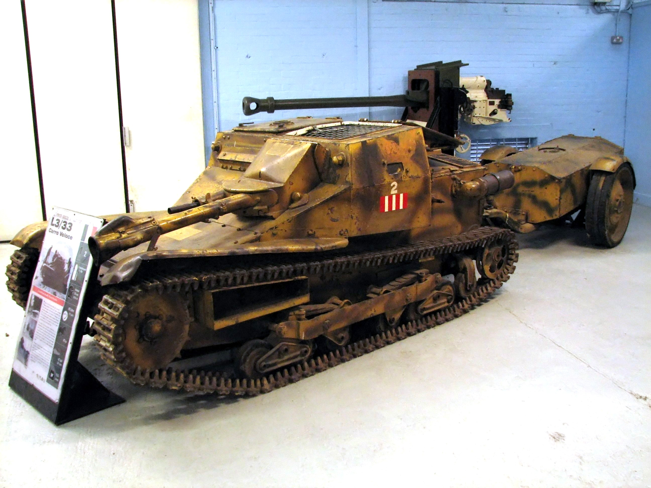 Italian CV-33 Flamethrower at Bovington Tank Museum